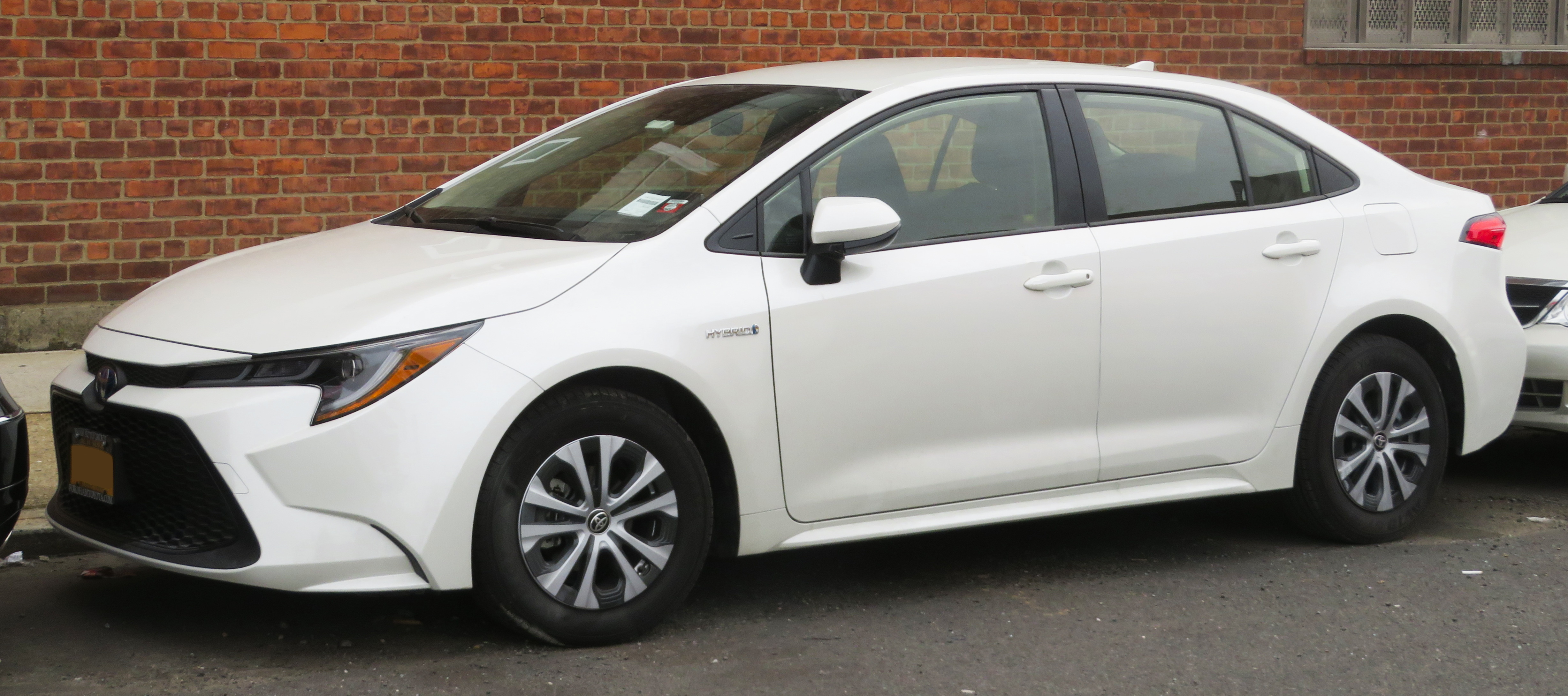 A 2020 Toyota Corolla LE Hybrid photographed in Flushing, Queens, New York, USA